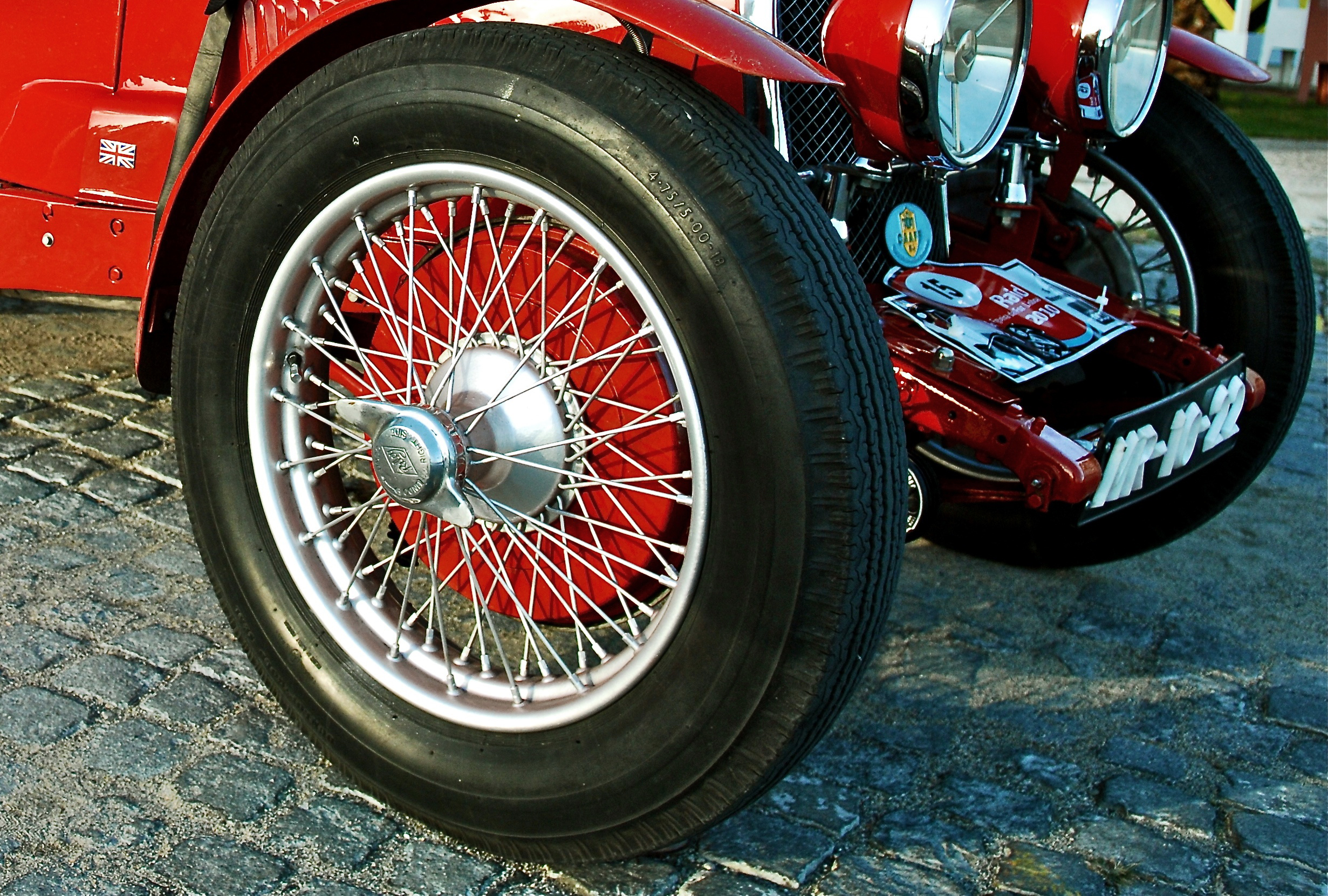 1930 Riley Brooklands wire wheels